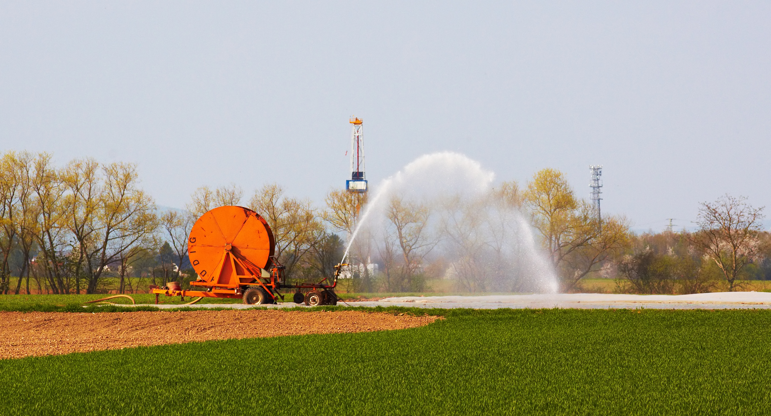 Sprinkler and reeling drum of a sprinkler irrigation system near Herxheim, Germany